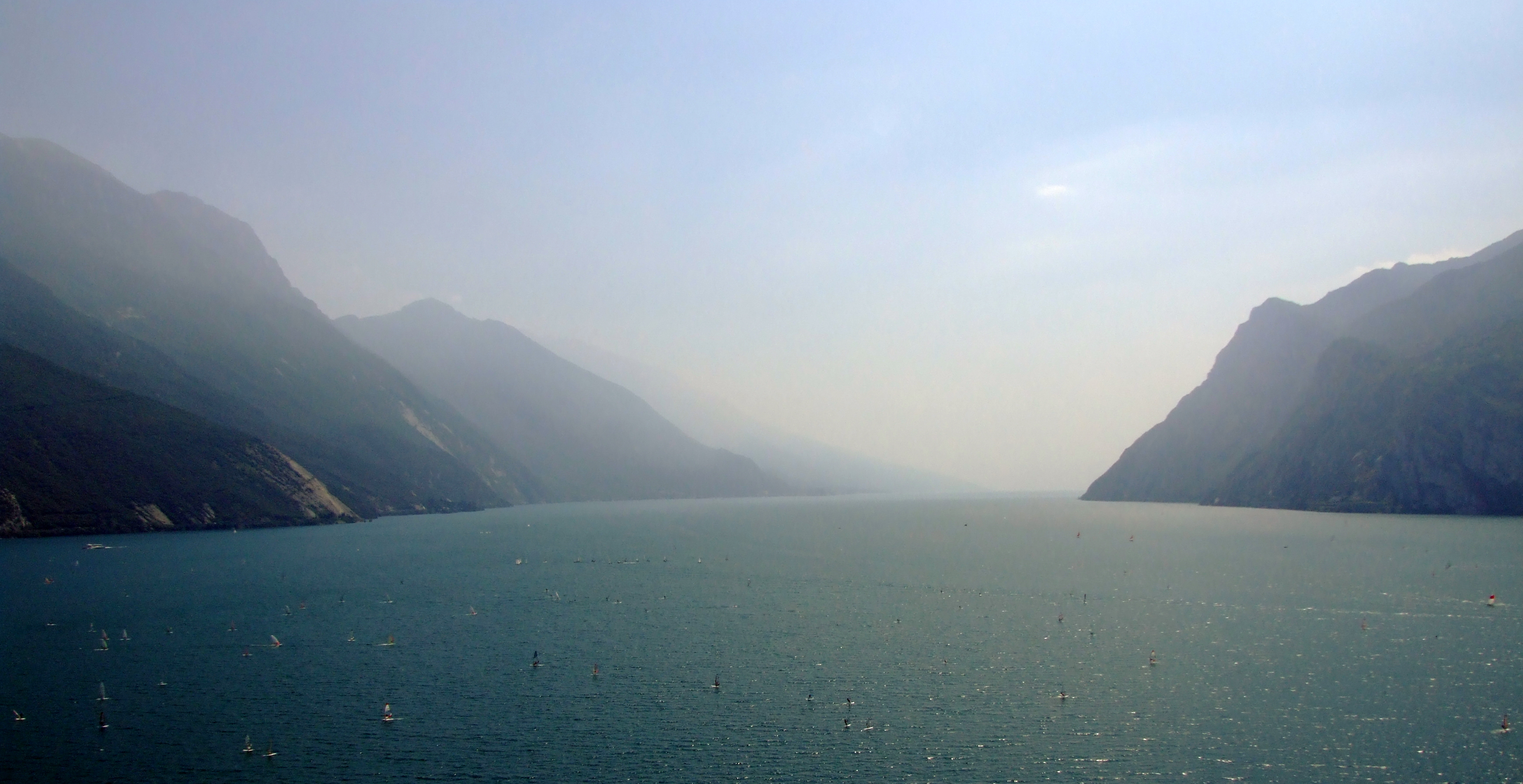 A view down Lake Garda from the northern end.